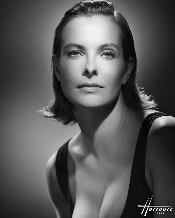 Carole Bouquet photographed by Studio Harcourt Paris